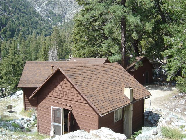 Cabins at Mount Baldy Zen Center.DSC01304